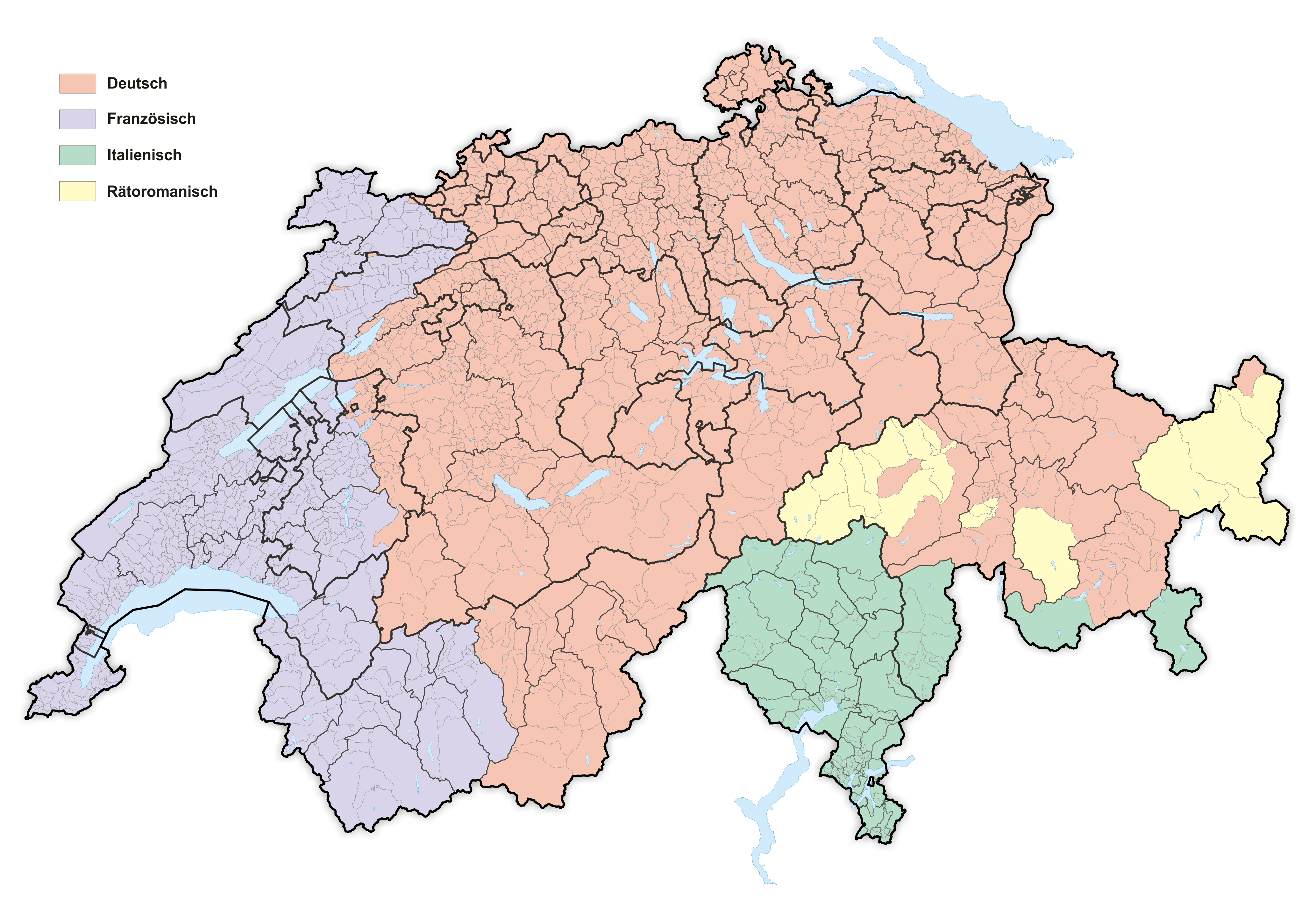 Languages in Switzerland